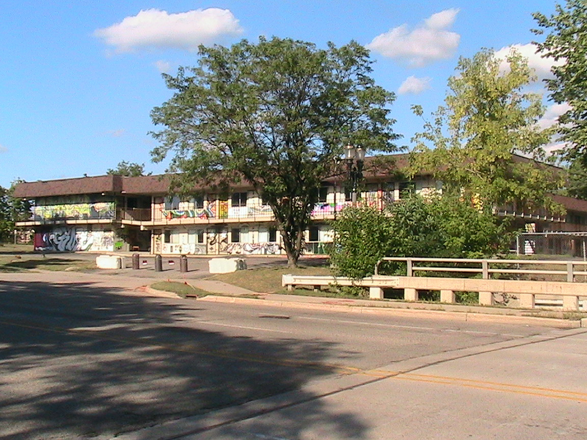 Former Deluxe Inn motel, at north edge of REO Town along Washington Avenue, near downtown Lansing, Michigan. The graffiti on the motel is a result of a planned urban art exhibition. Photo taken approximately 2 weeks prior to the building's demolition in September 2010.